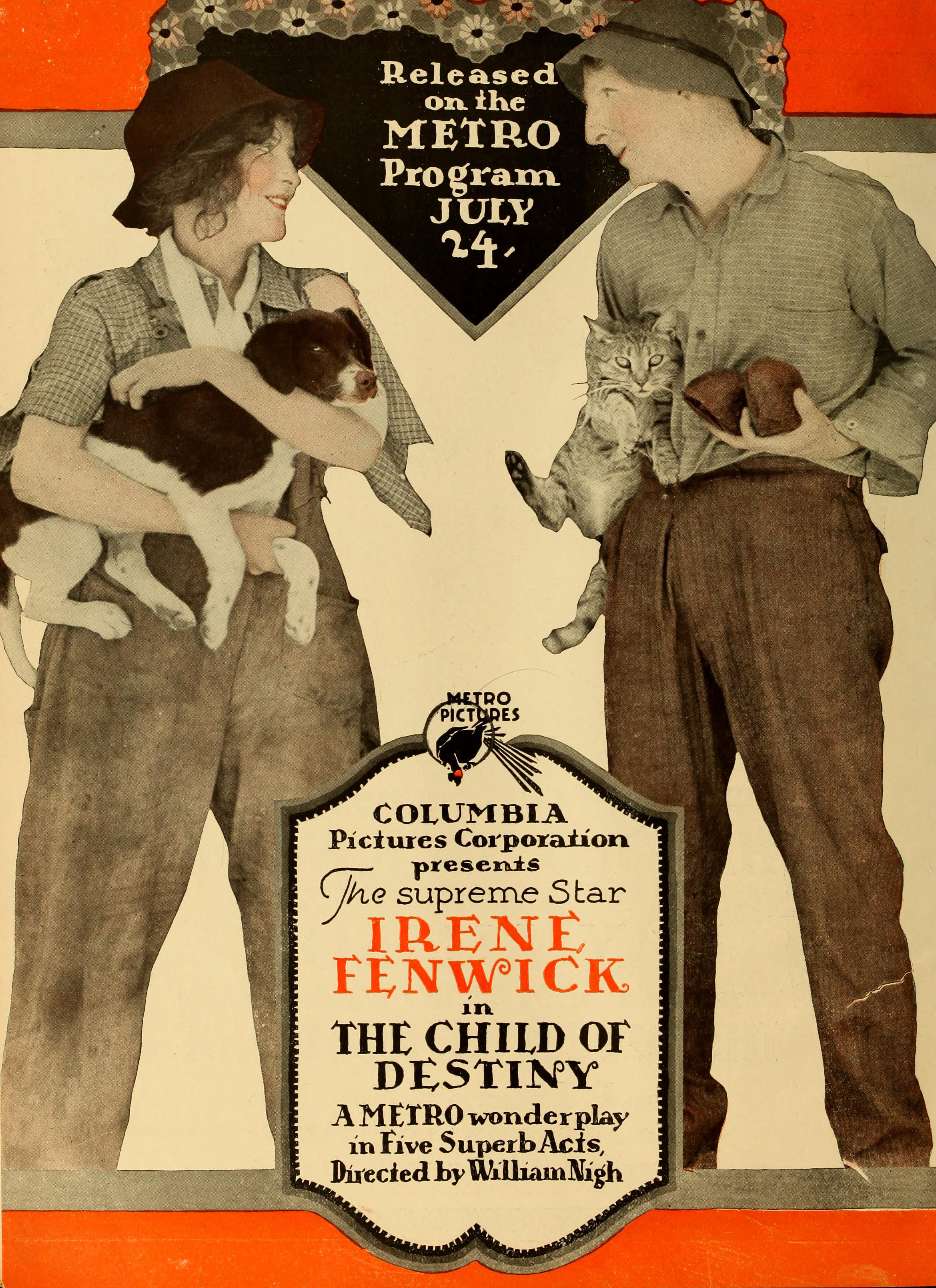 Advertisement in The Moving Picture World for The Child of Destiny (1916).